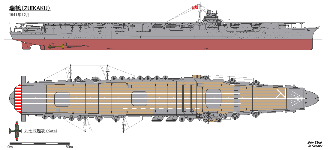 Figure of Japanese aircraft carrier ZUIKAKU on December 1941.